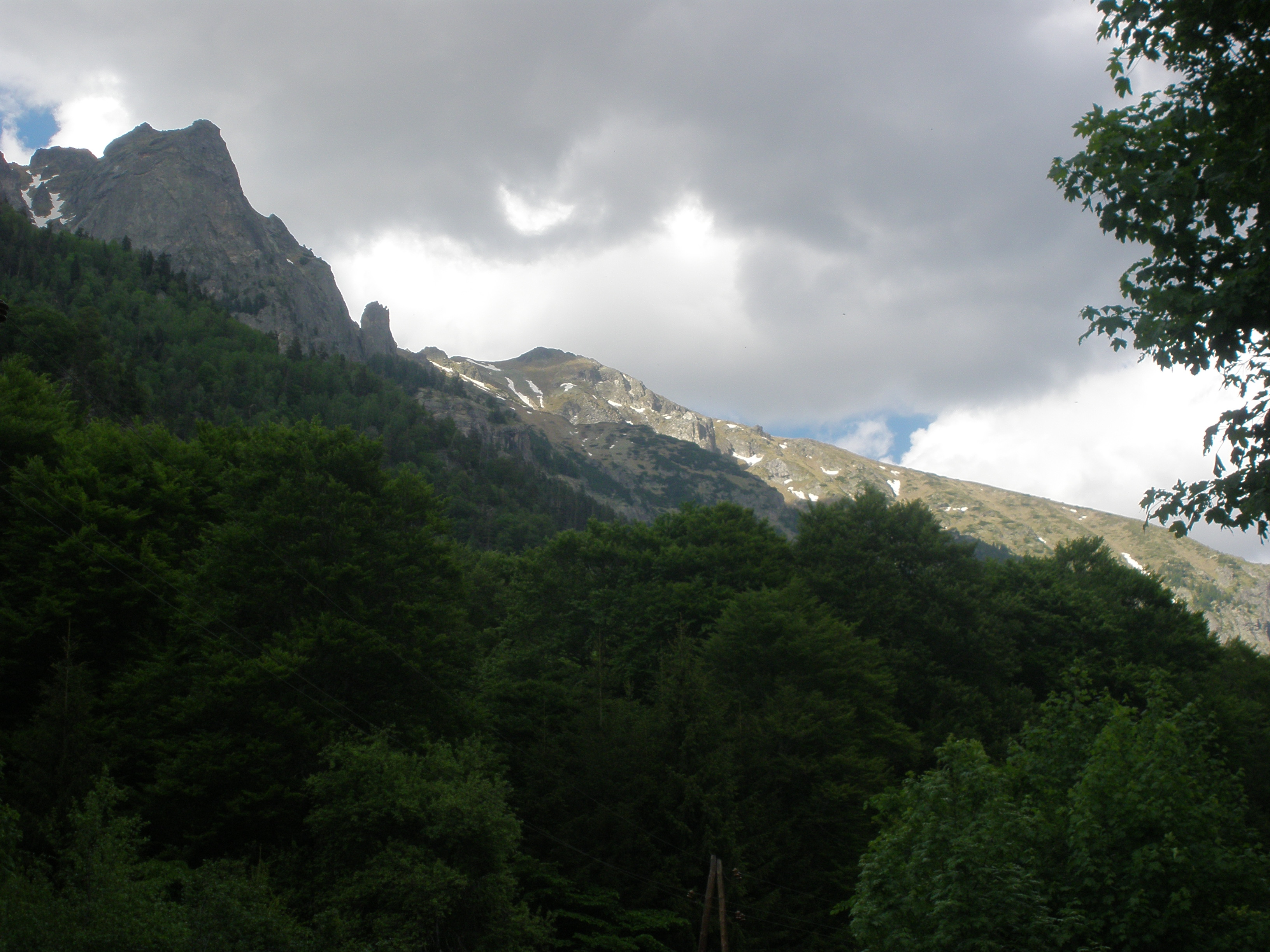 Rila